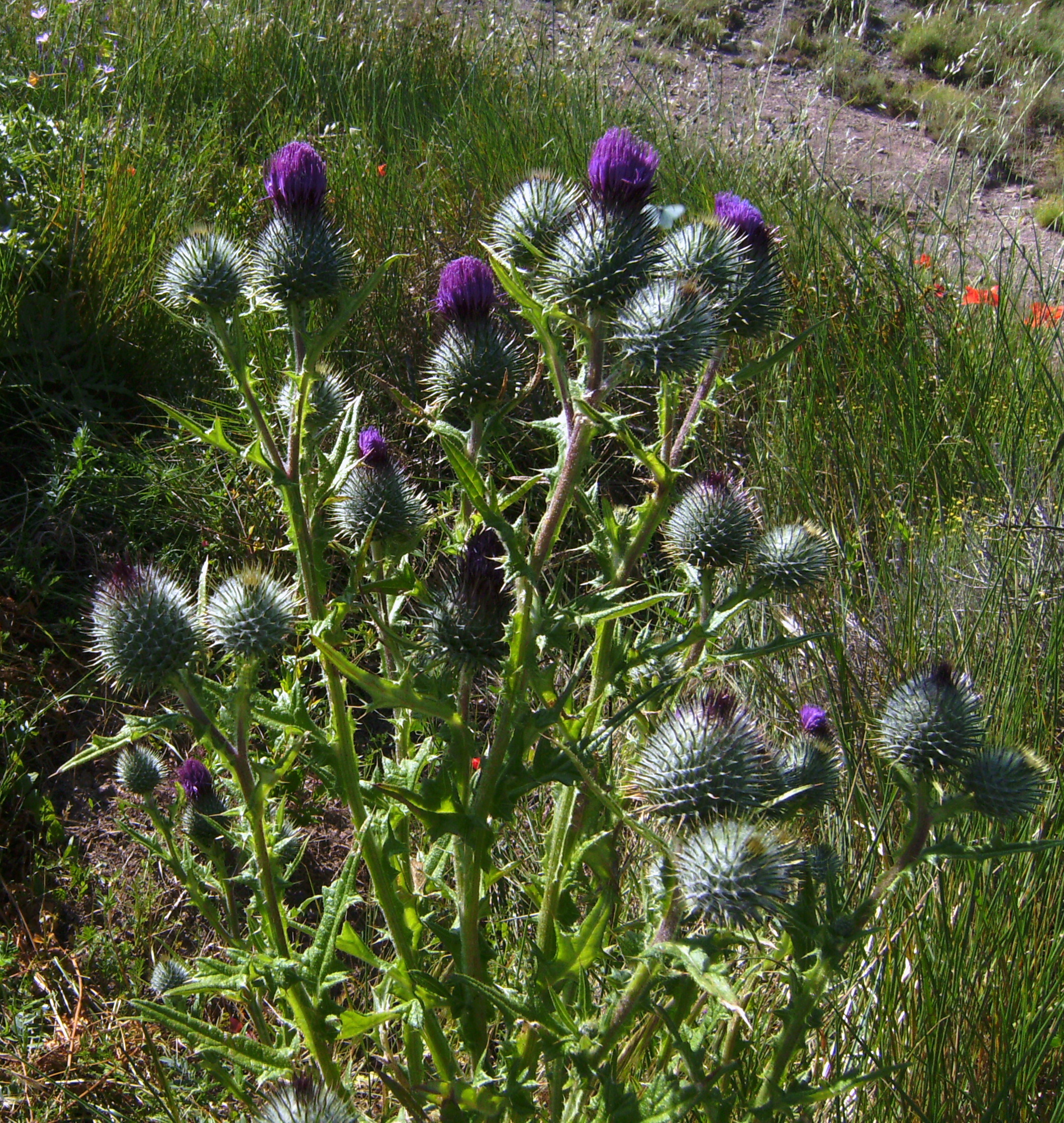 Cirsium vulgare, Castelltallat, Catalonia